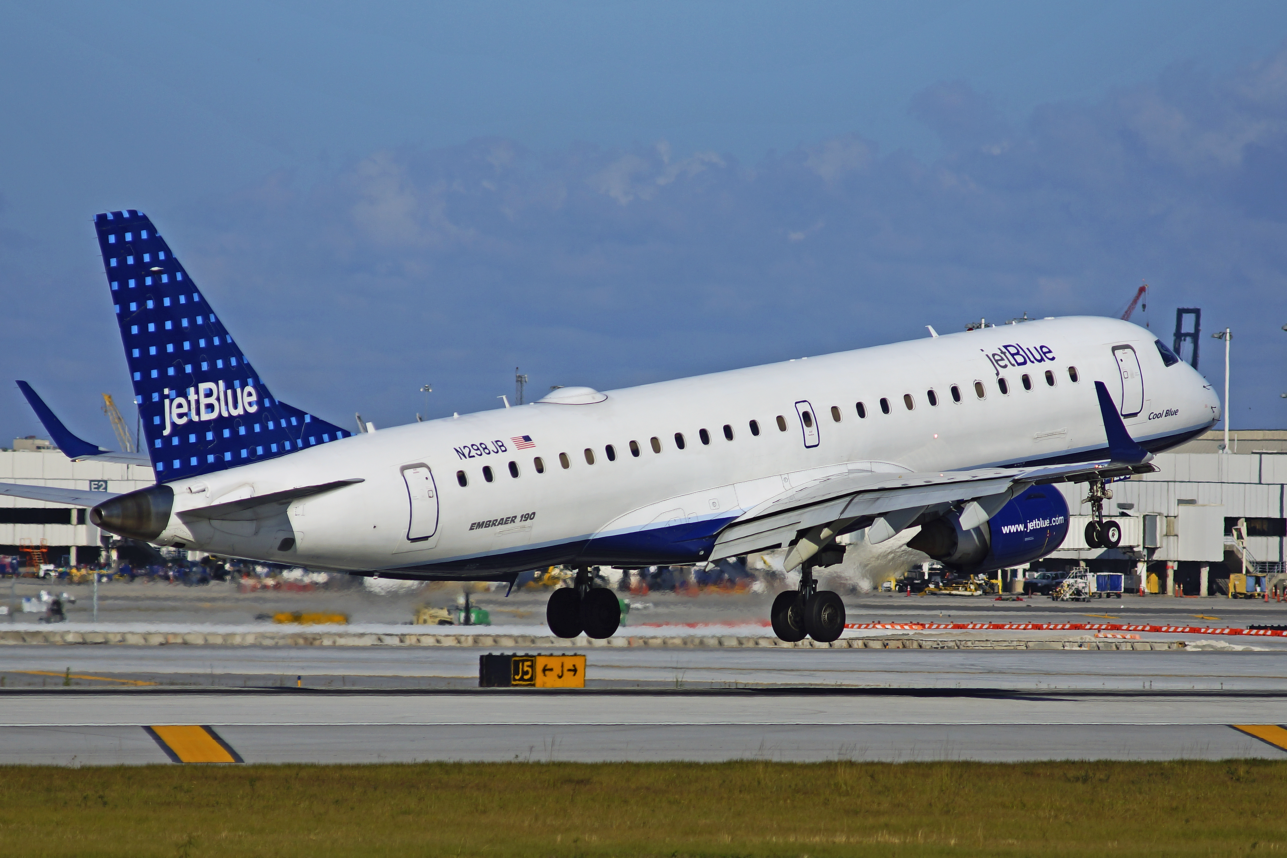 Cool Blue Floating FLL 10R JTPI 4x6 7951